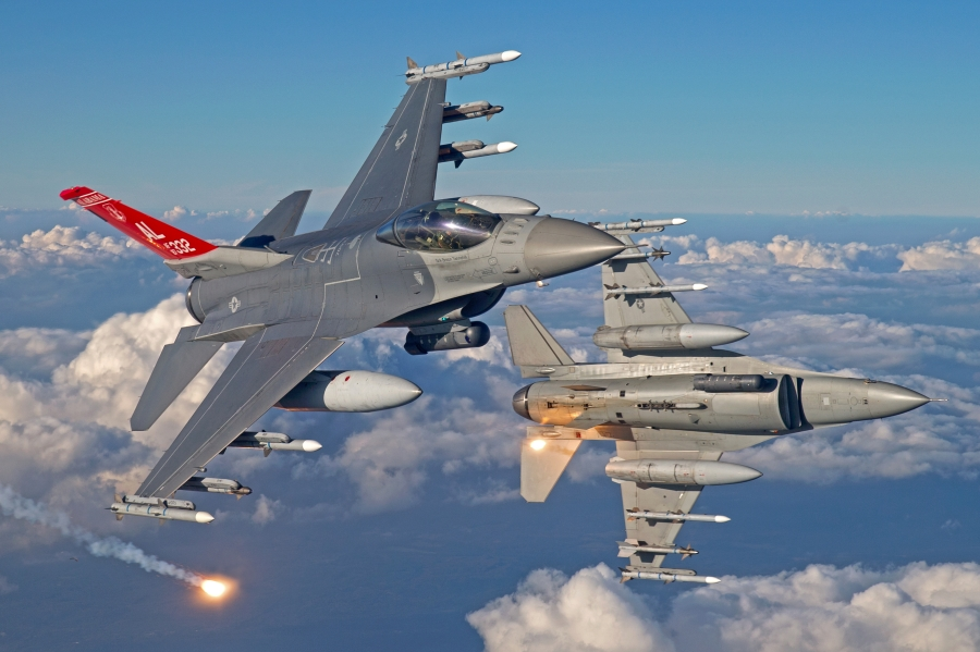 AANG